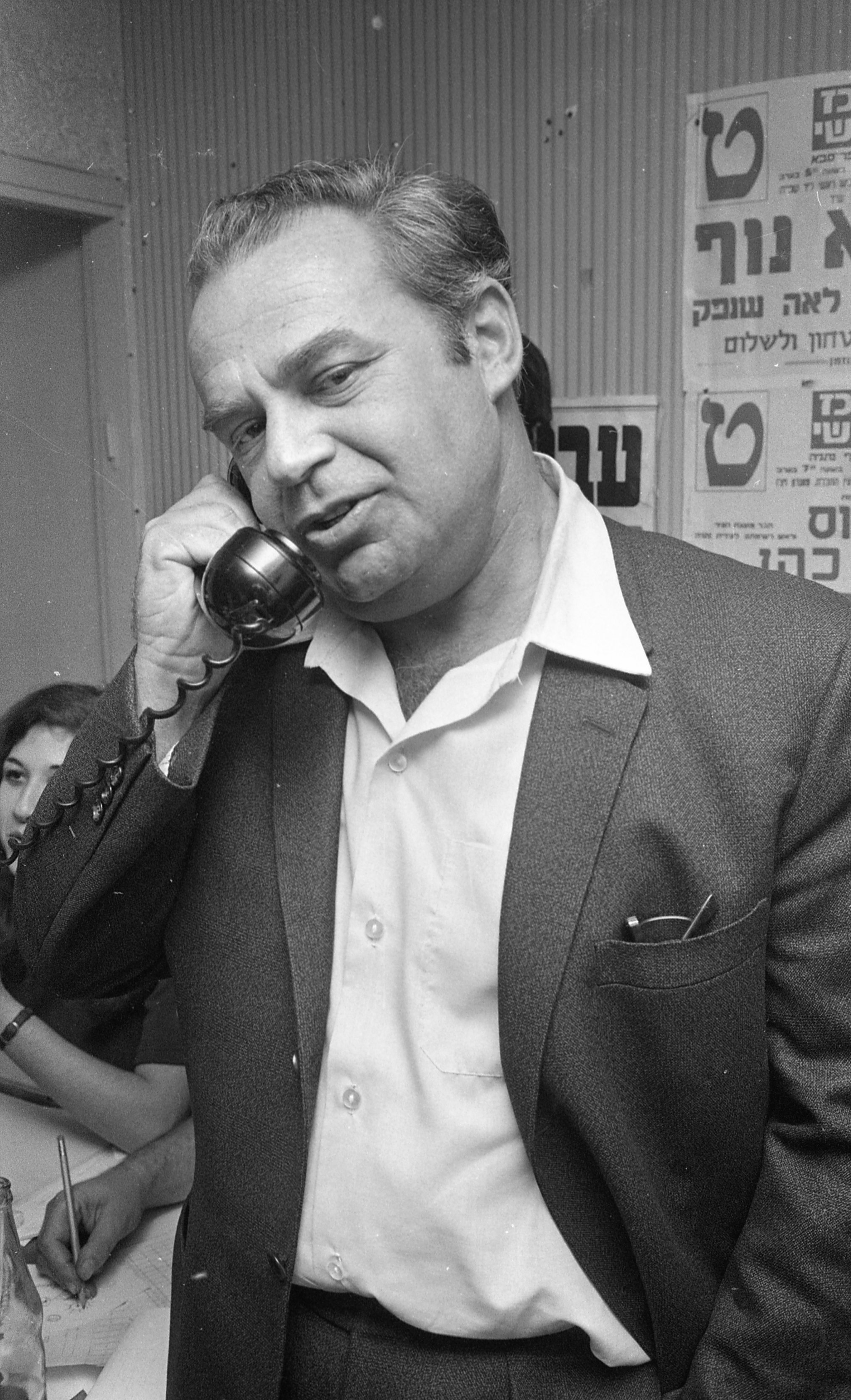 Shmuel Tamir. 1969 Israeli legislative election.